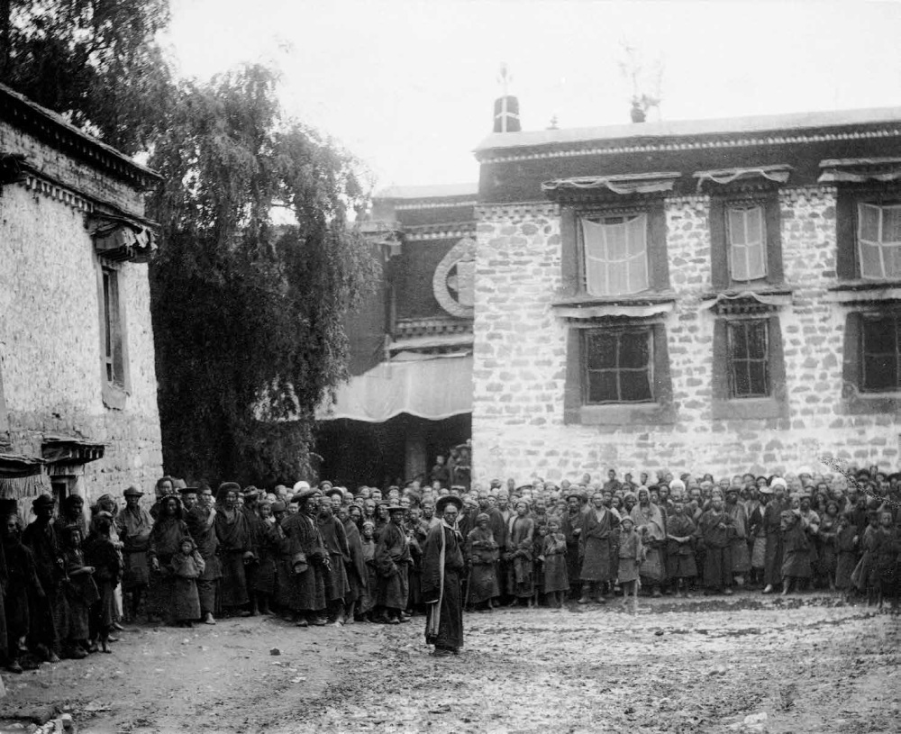 Photo taken during Younghusband Expedition to Tibet in Lhasa. John Claude White captioned the photograph “View in Lhassa. Looking towards the Jo Khang.”